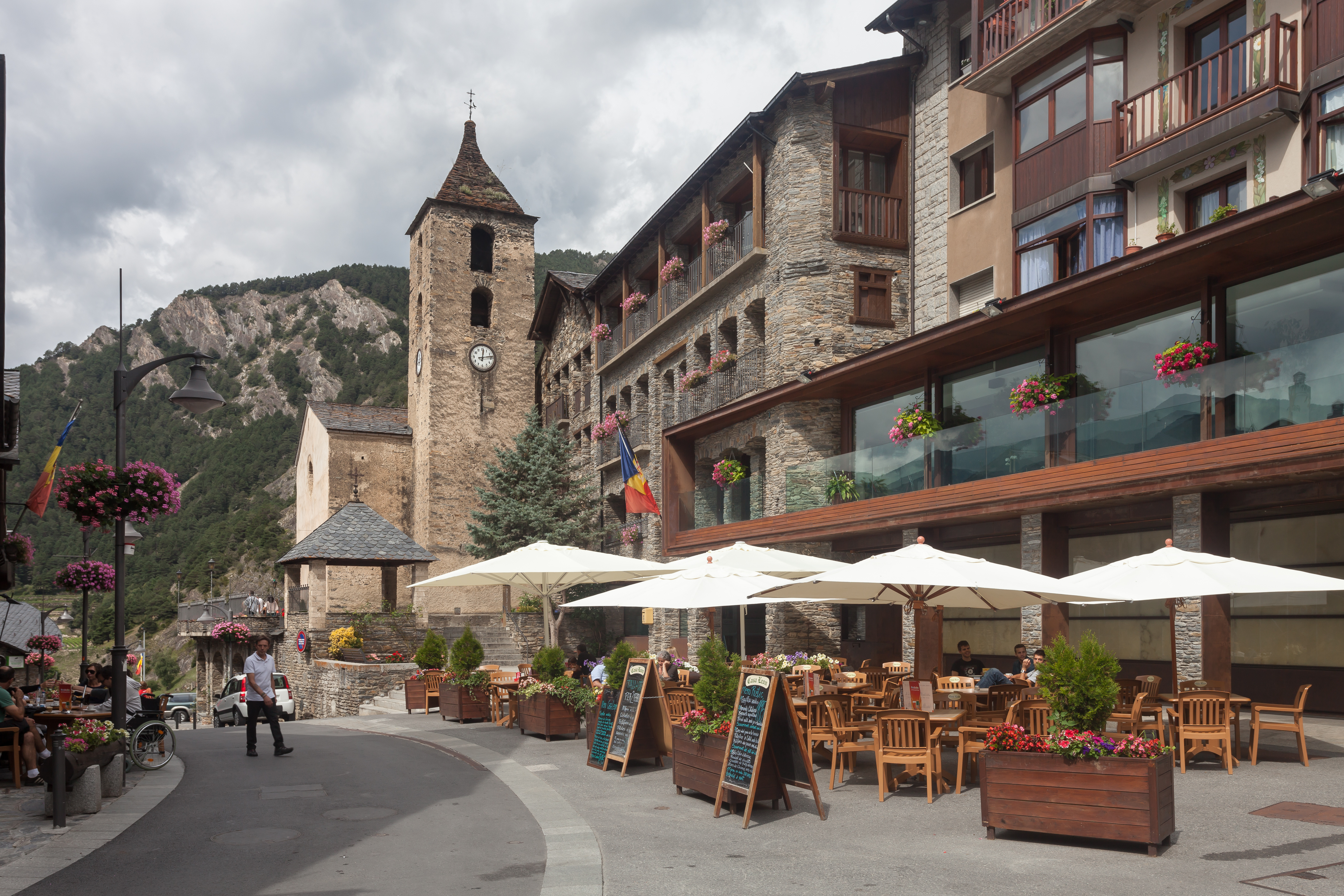 Ordino, Andorra